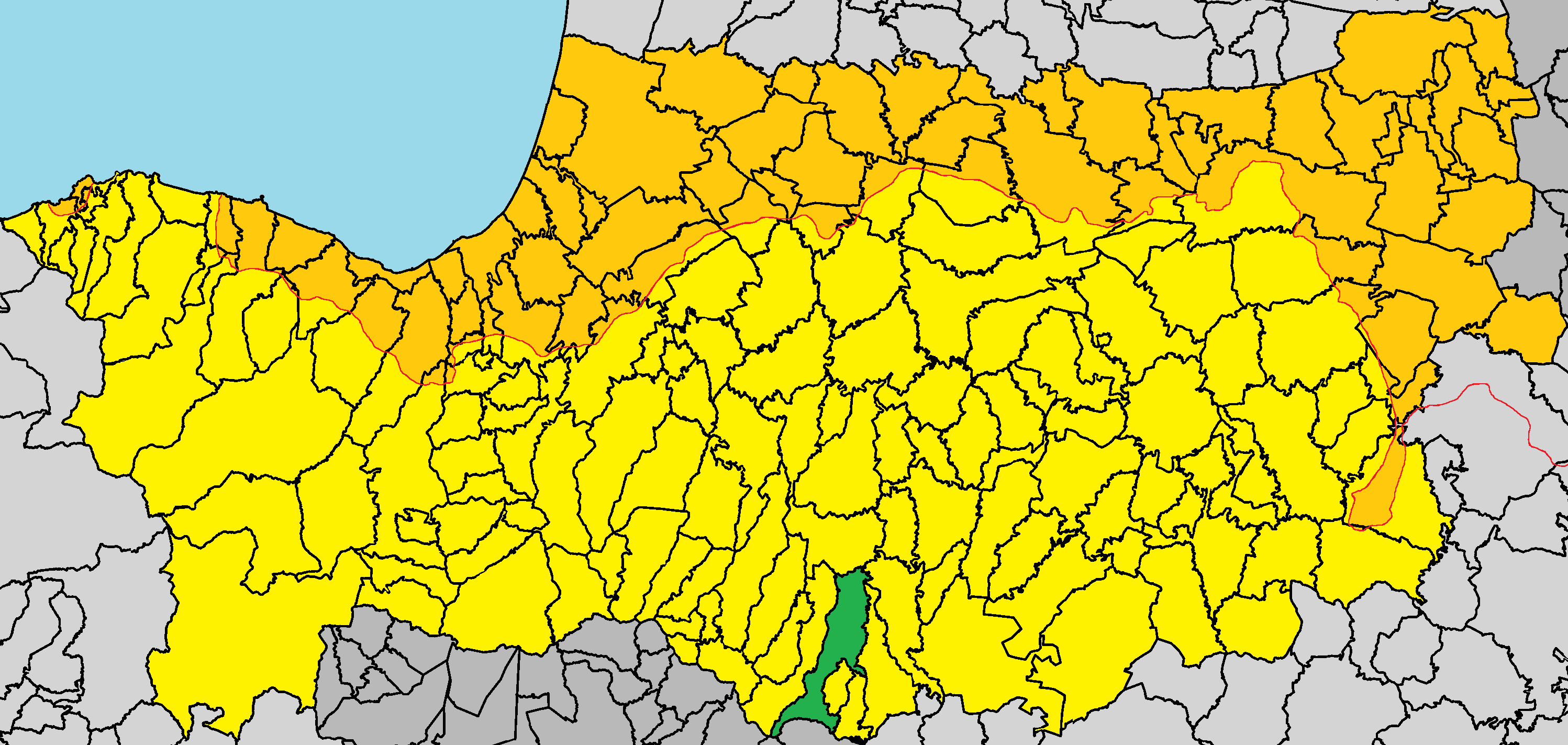 Palaichori Oreinis in Nicosia District.